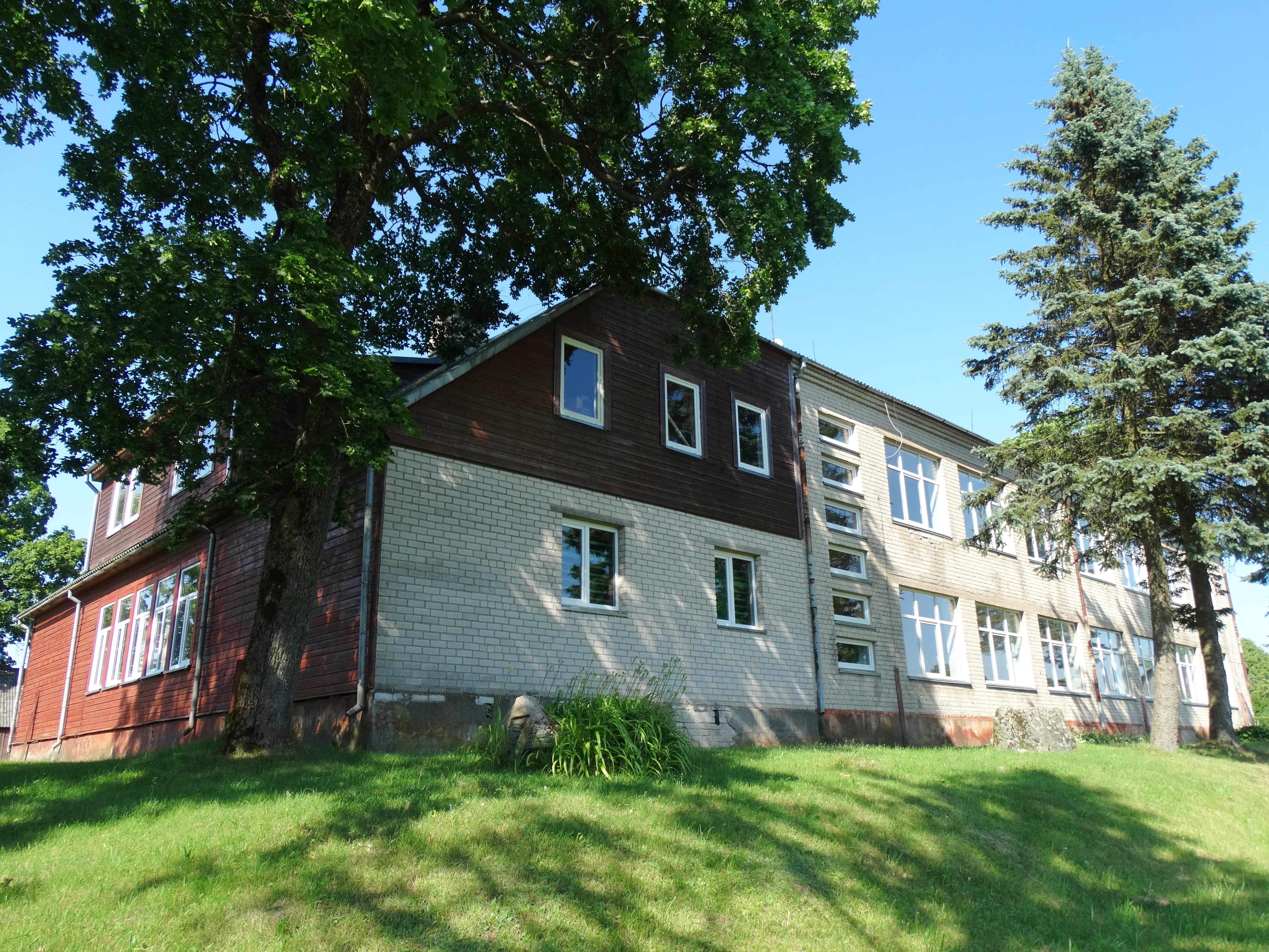 School, Kantaučiai, Plungė District, Lithuania